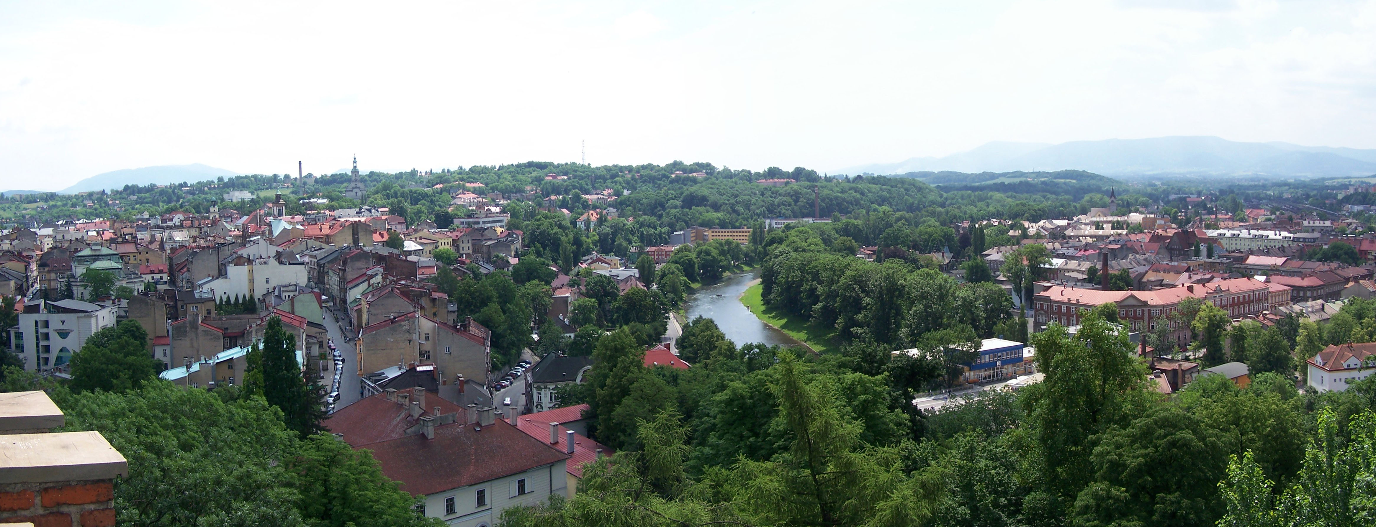 Olza River flowing through Cieszyn, Poland and Český Těšín, Czech Republic.